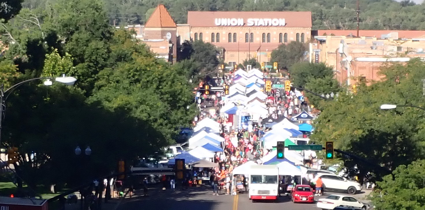 Farmersmarket in Historic 25th Street, Ogden, Utah, USA